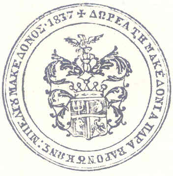 Donation of stamps Konstantinos Bellios